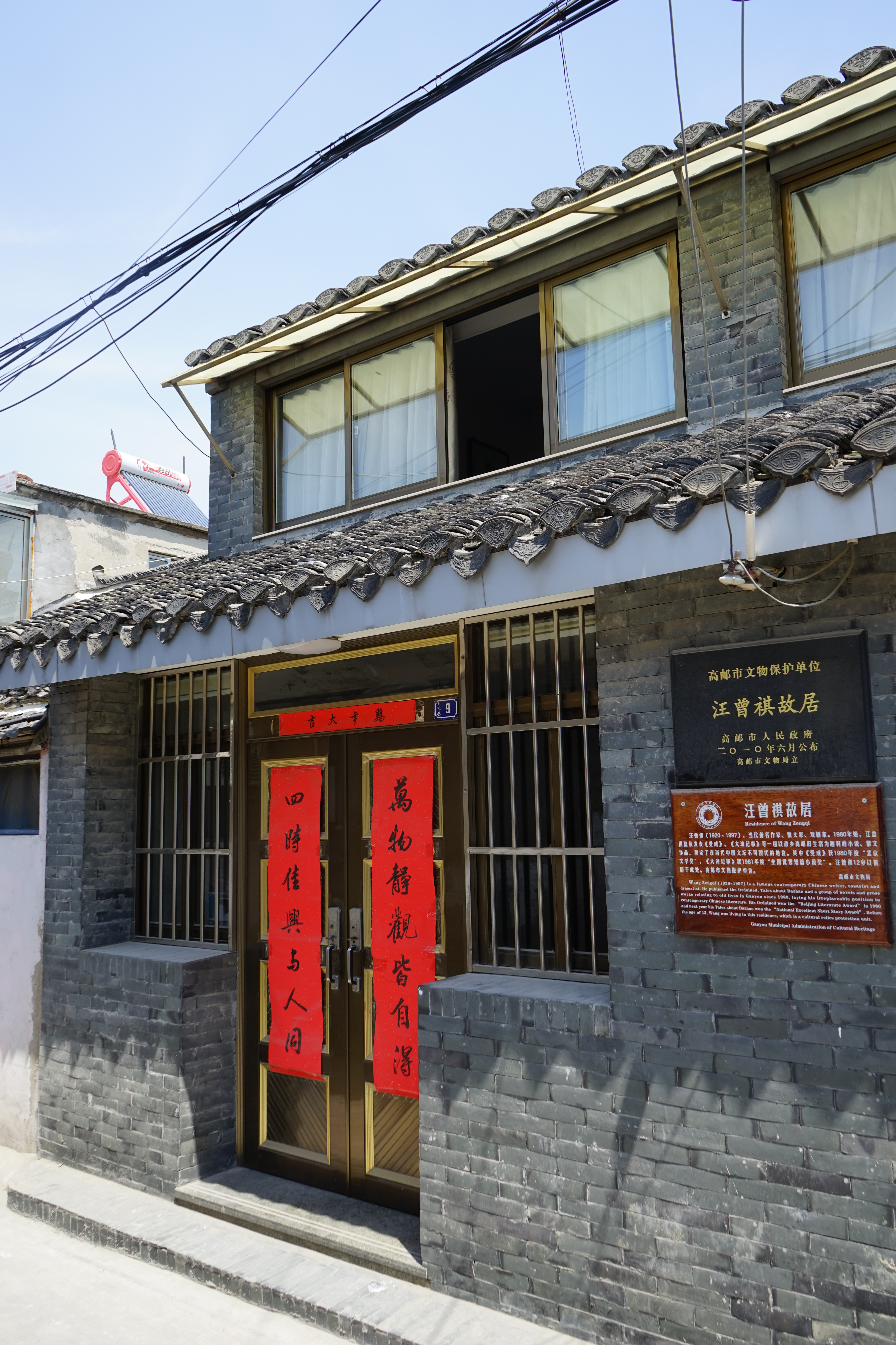 Former Residence of Wang Zengqi, No.9 Zhujia Alley, Gaoyou, Jiangsu, China. Wang lived here before he was 12. The former residence is now a historical and cultural site protected at city level in Gaoyou.